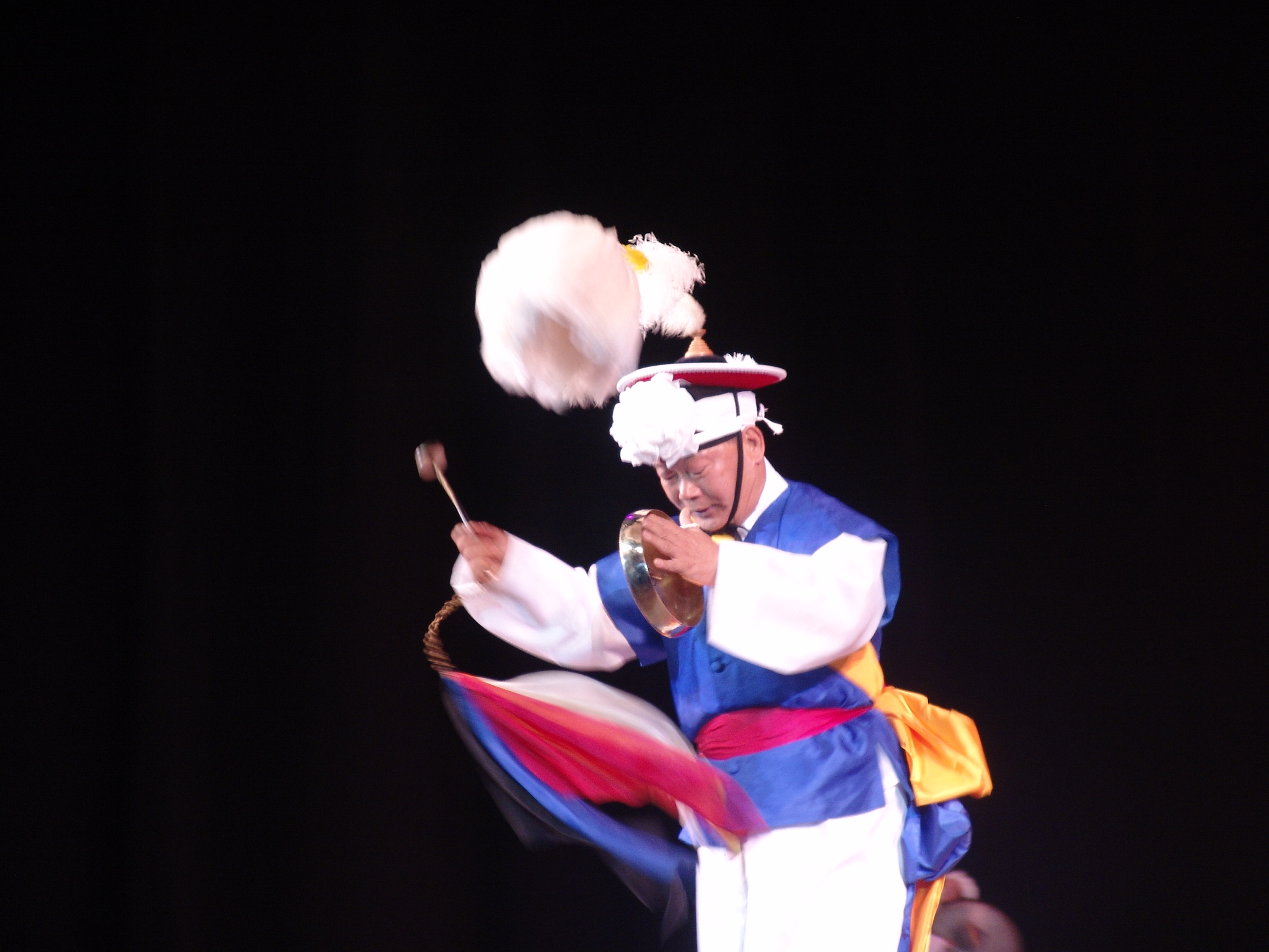 Korean itinerant troupe which consists of male performers who present various performing arts such as acrobatics, singing, dancing and playing like a circus